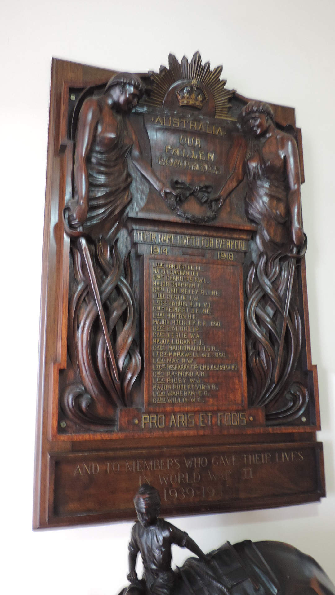 World War 1 Honour Board, Montpelier House, United Services Club Premises, Wickham Terrace, Spring Hill, Brisbane, 2015